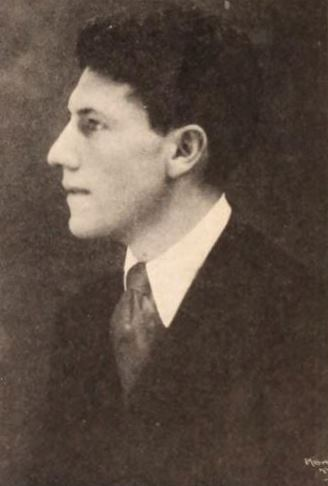 American publicist Howard Dietz, then at Goldwyn Pictures, on page 41 of the December 18, 1920 Exhibitors Herald.